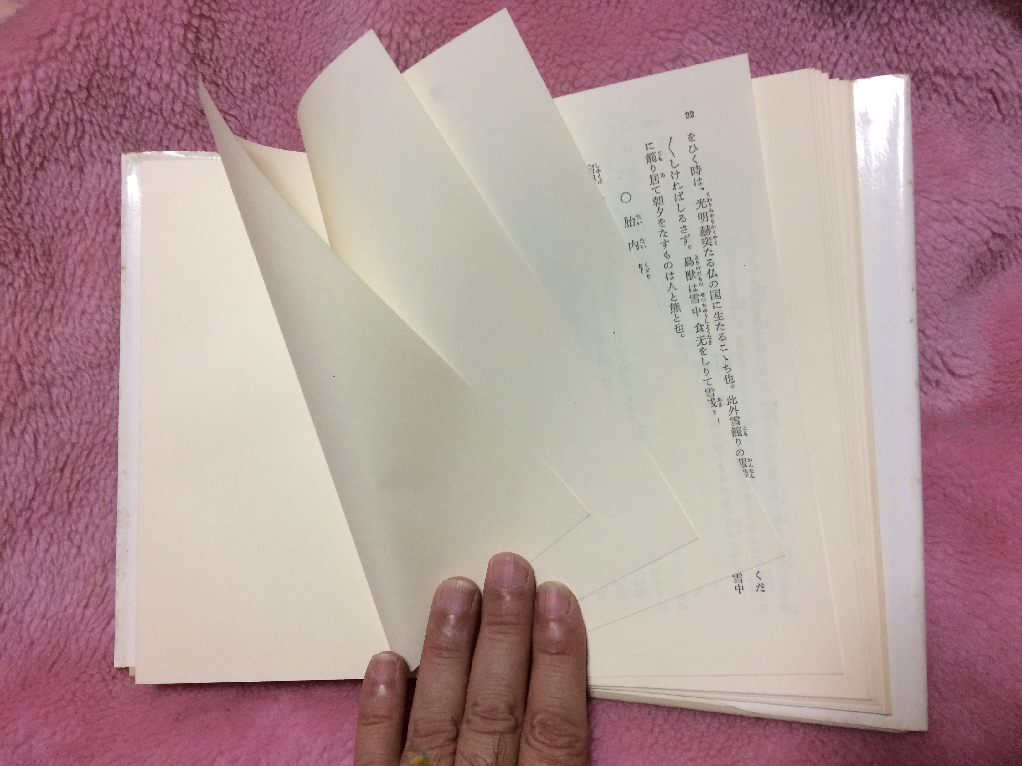 A dummy copy of "Hokuetsu-Seppu", from the Iwanami Classics series.